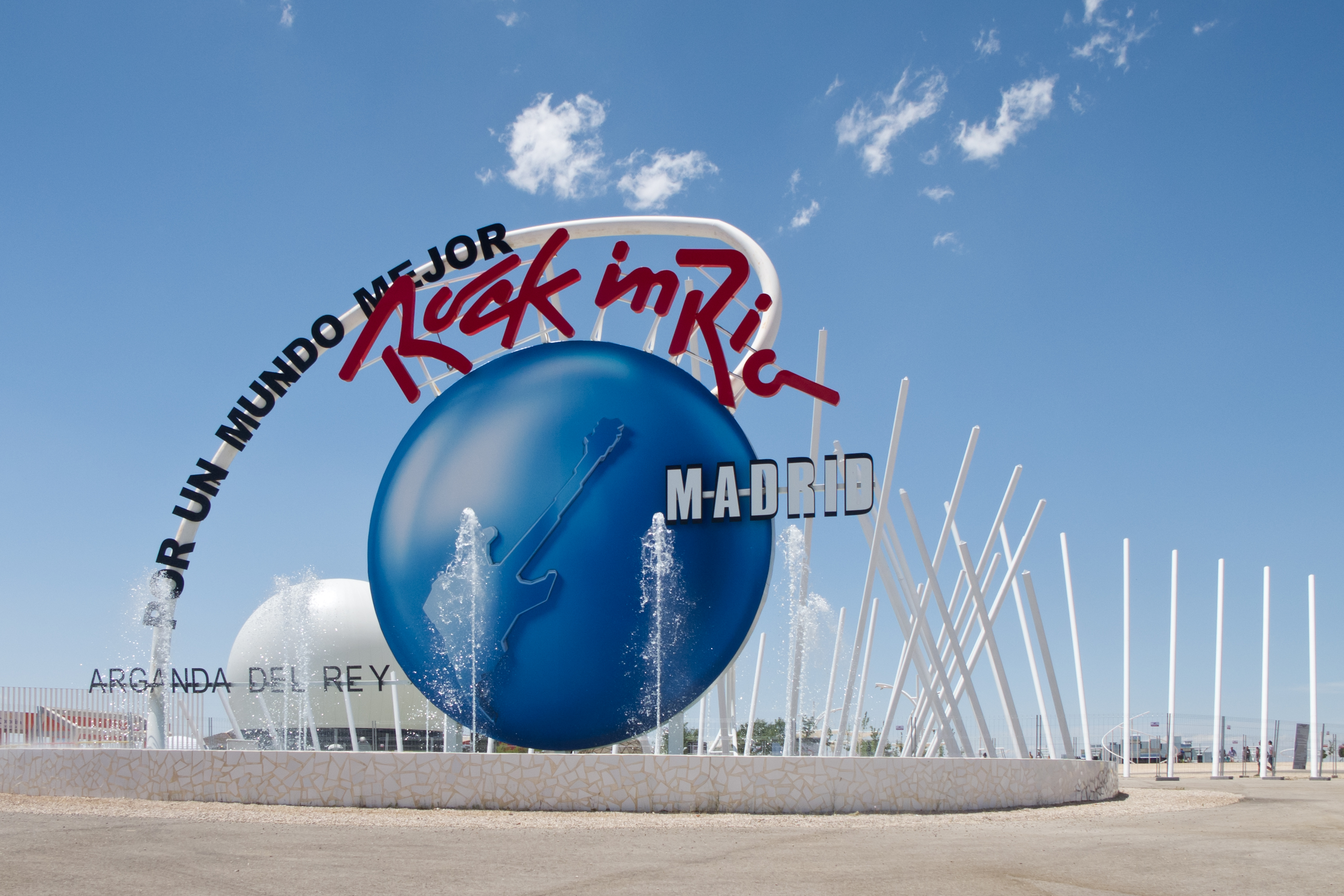 Entrance to Rock in Rio Madrid 2012.